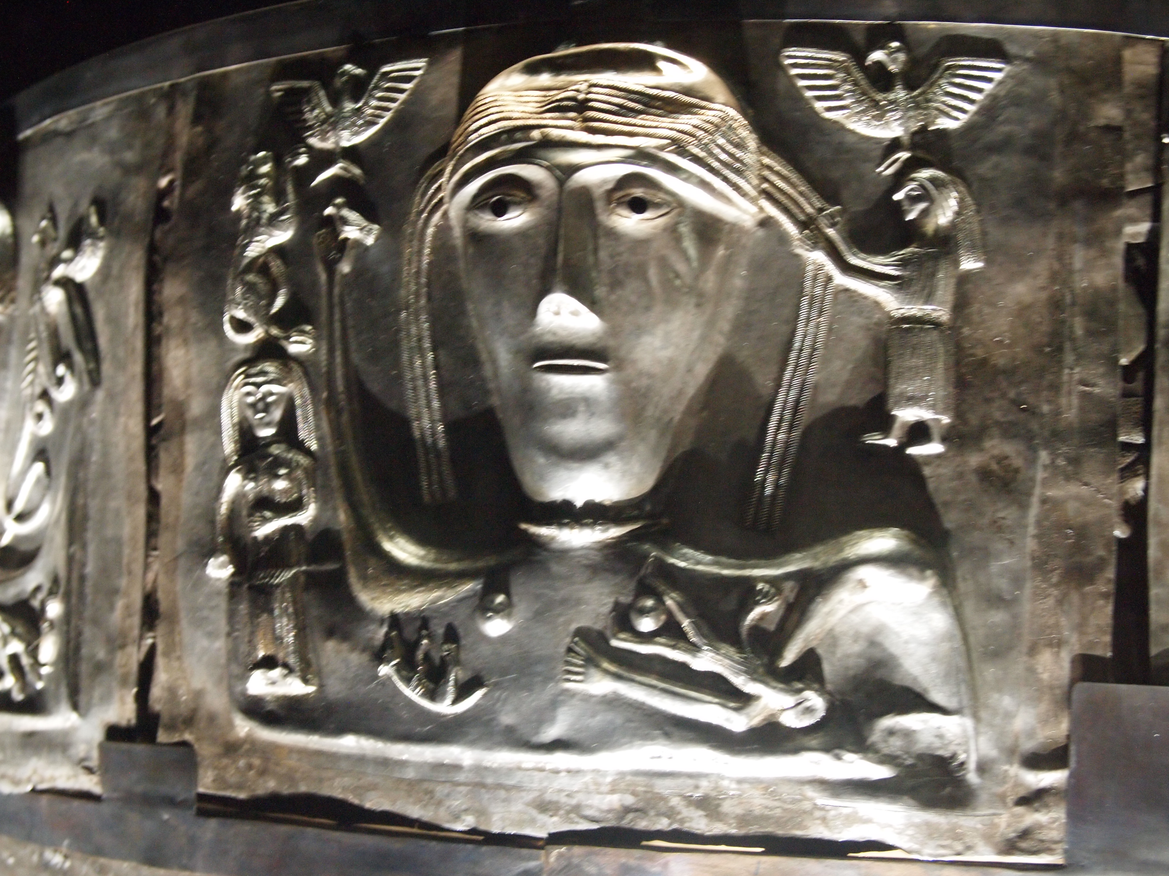 Pictures taken at the National Museet - The National Museum - Copenhagen Denmark during the Wikipedia Loves Nationalmuseet